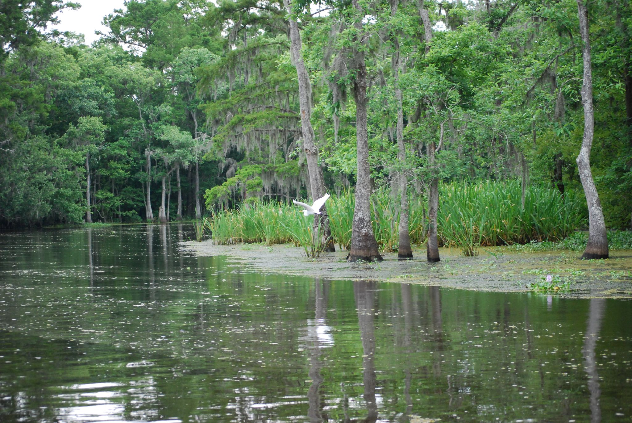 Great White Egret over Bayou, Louisiana